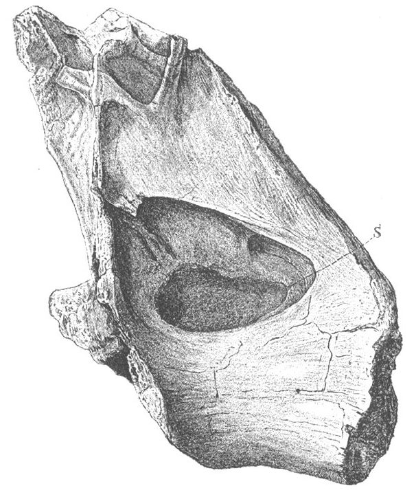 Illustration of the single known vertebrae excavated in the early 1890s that was described and figured by Lydekker and assigned to Morosaurus brevis, but in 2007 reassigned to the new taxon Xenoposeidon proneneukus. S. = septum in lateral cavity. 1/3 natural size.